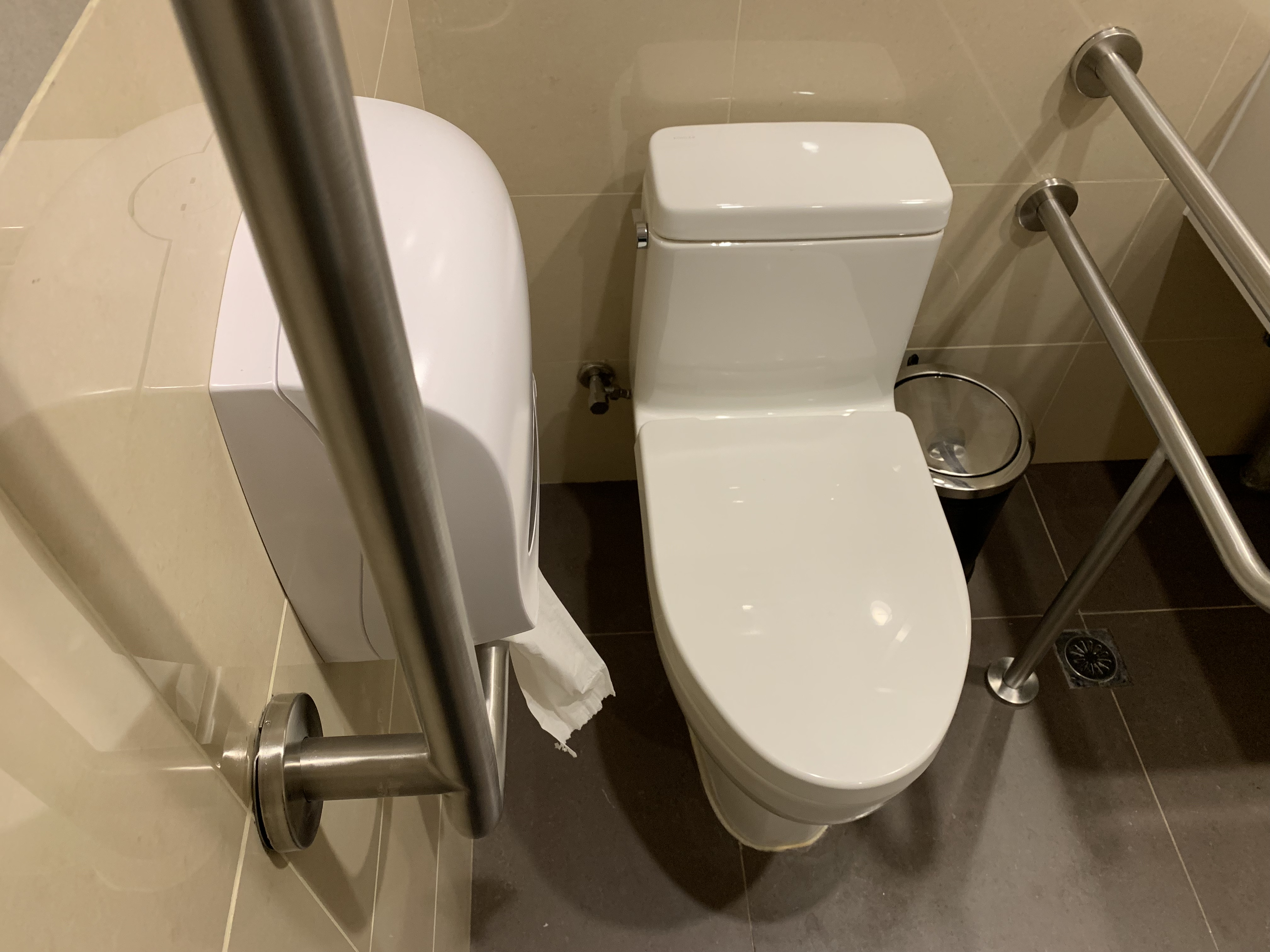 Bathrooms at NYU Shanghai don't have accessible flush handles.